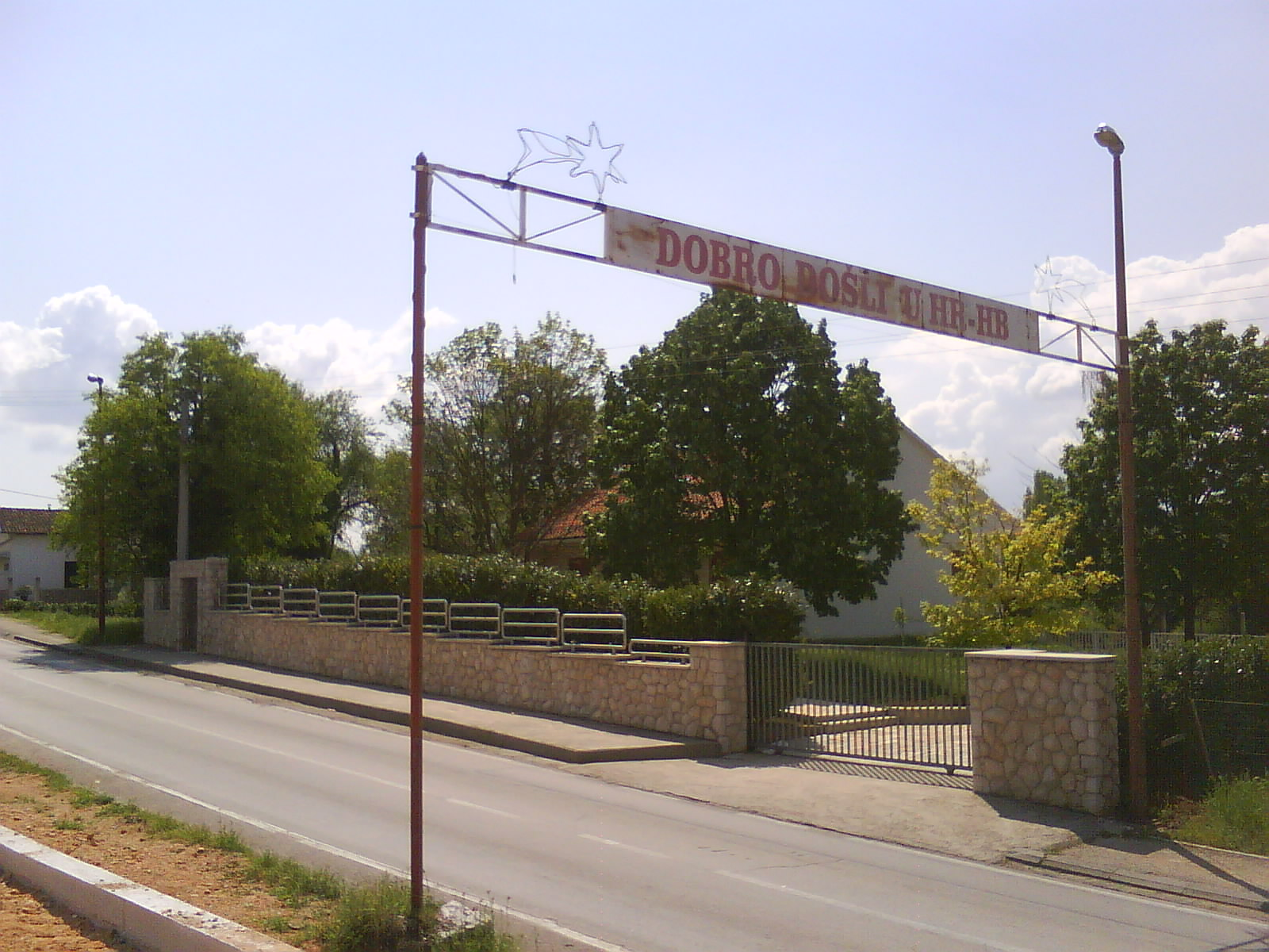 Gorica village, municipality of Grude